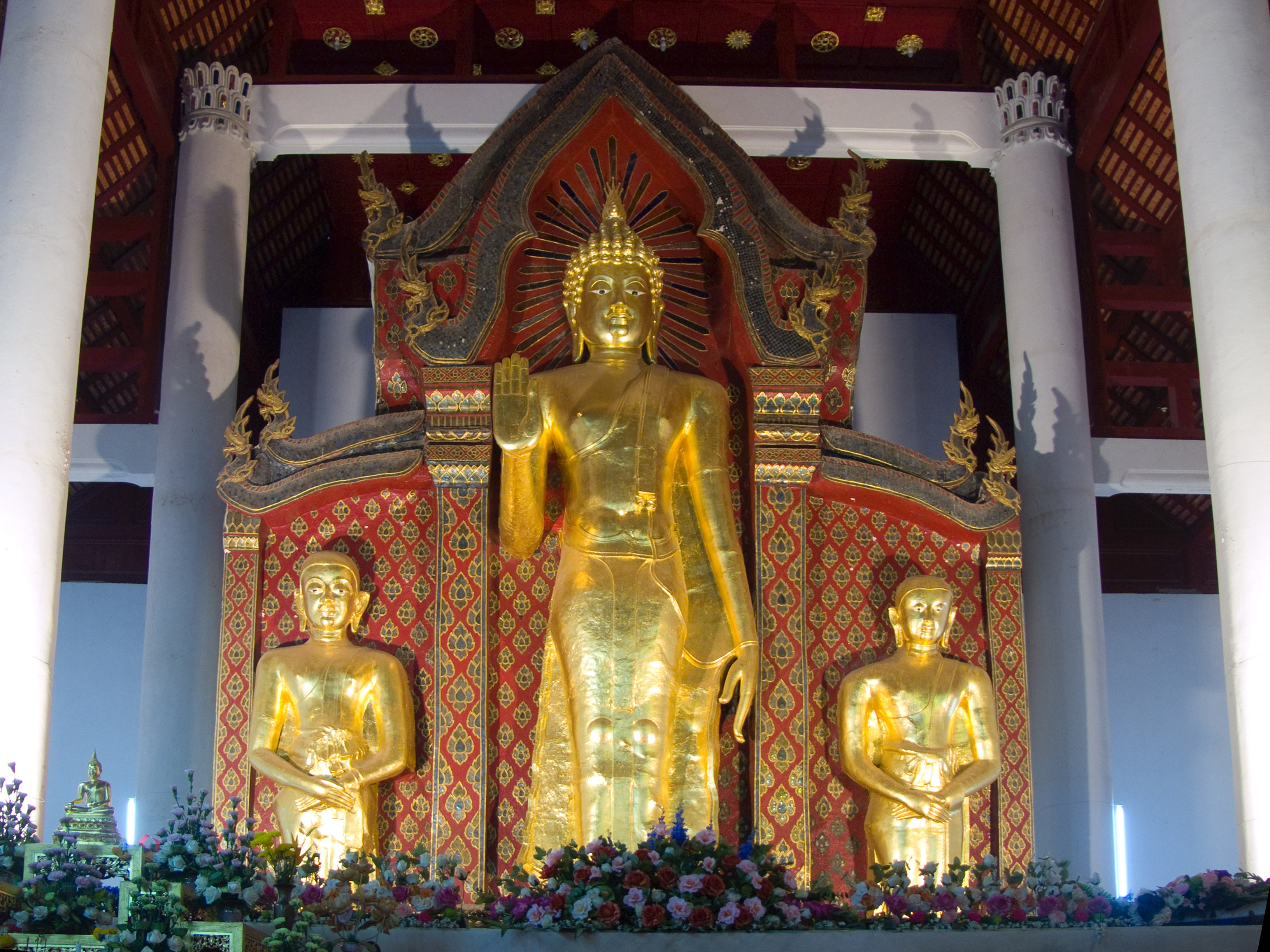 The Phra Attaros Buddha in Wat Chedi Luang, Chiang Mai, Thailand.